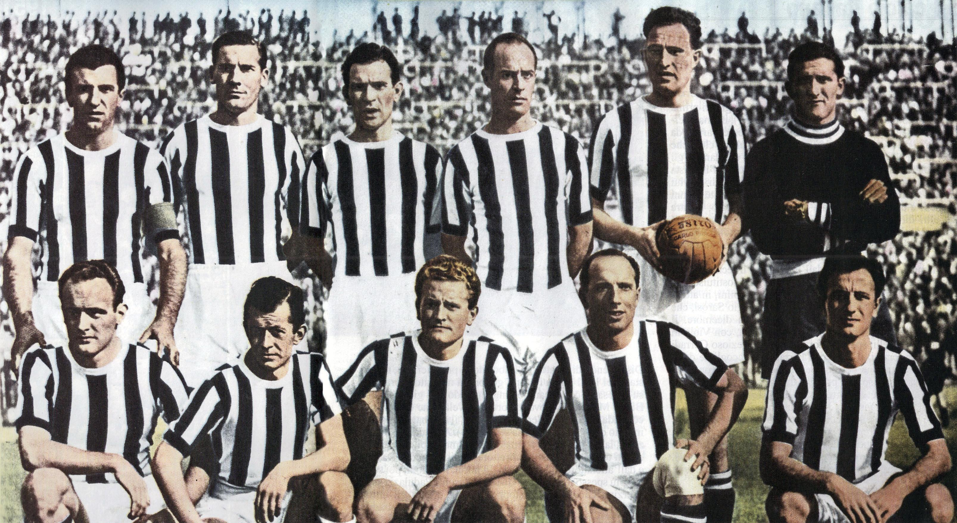 A line-up of Juventus F.C. in the 1951–52 season. From left to right, standing: C. Parola (captain), K. A. Præst, G. Mari, A. Piccinini, J. Hansen, G. Viola; crouched: K. A. Hansen, E. Muccinelli, G. Boniperti, A. Bertuccelli, S. Manente.